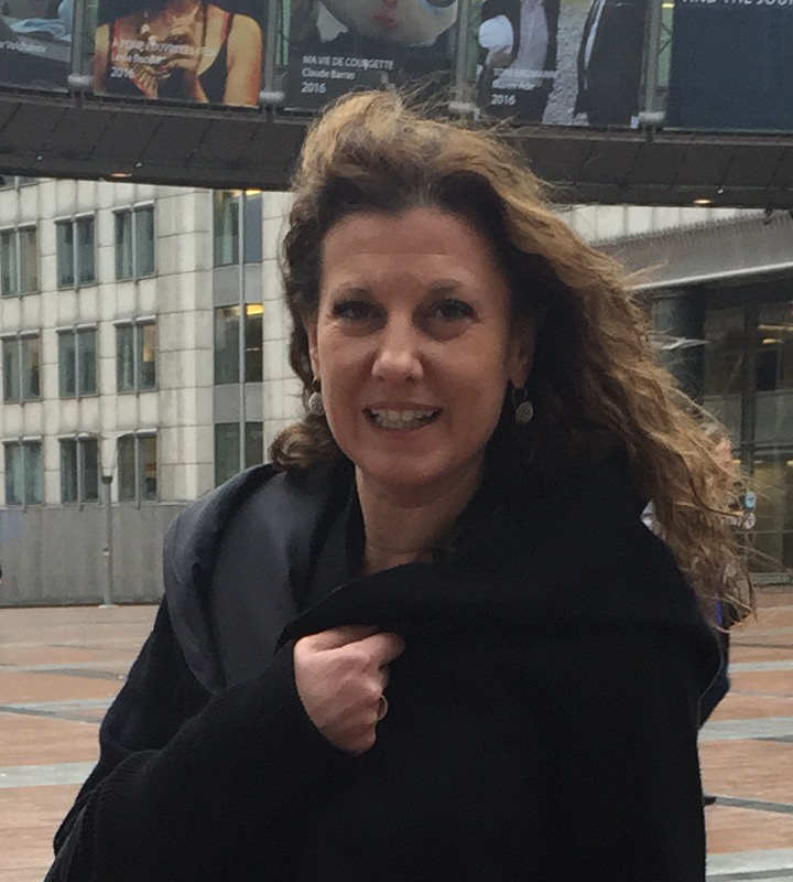 Miroliuba Benatova - Bulgarian journalist